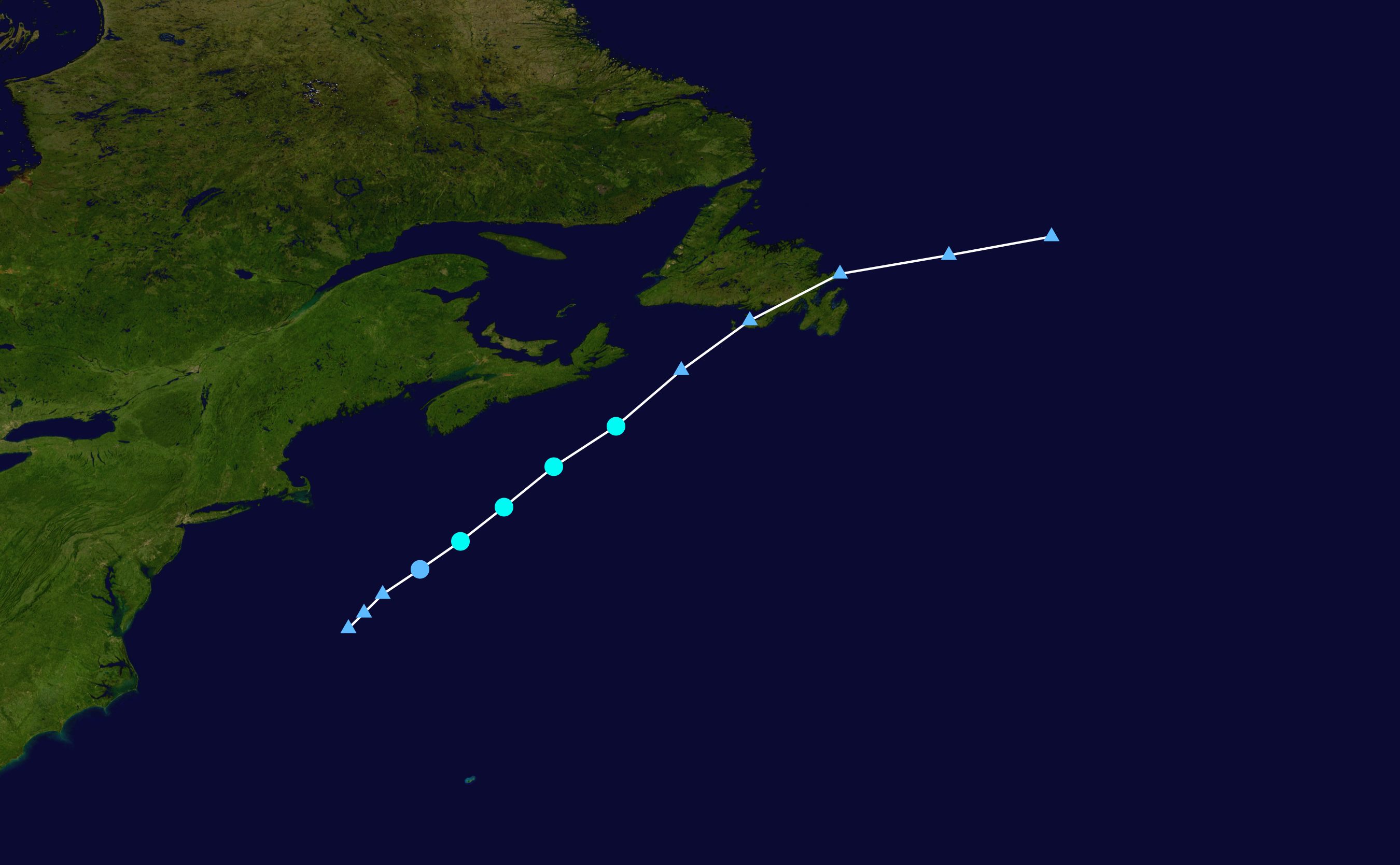 Track map of Unnamed Tropical Storm of the 2006 Atlantic hurricane season. The points show the location of the storm at 6-hour intervals. The colour represents the storm's maximum sustained wind speeds as classified in the Saffir–Simpson scale (see below), and the shape of the data points represent the nature of the storm, according to the legend below. Saffir–Simpson scale Tropical depression≤38 mph≤62 km/h Category 3111–129 mph178–208 km/h Tropical storm39–73 mph63–118 km/h Category 4130–156 mph209–251 km/h Category 174–95 mph119–153 km/h Category 5≥157 mph≥252 km/h Category 296–110 mph154–177 km/h Unknown Storm type Tropical cyclone Subtropical cyclone Extratropical cyclone / Remnant low / Tropical disturbance / Monsoon depression